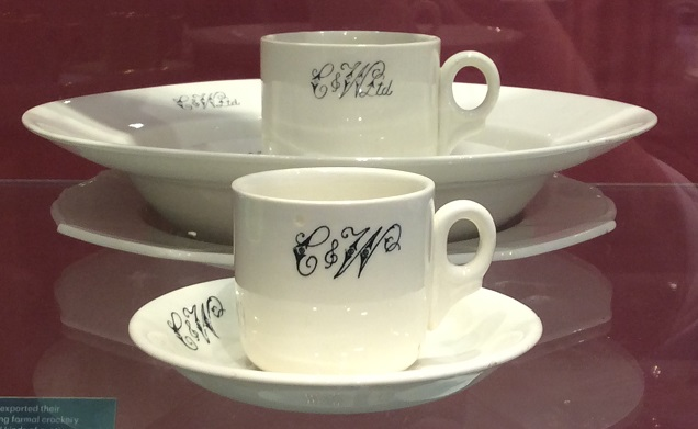 Sample (cups, plates, and saucer) of company crockery made for cable telegraph stations run by Cable & Wireless. On display at Porthcurno Telegraph Museum, January 2019.